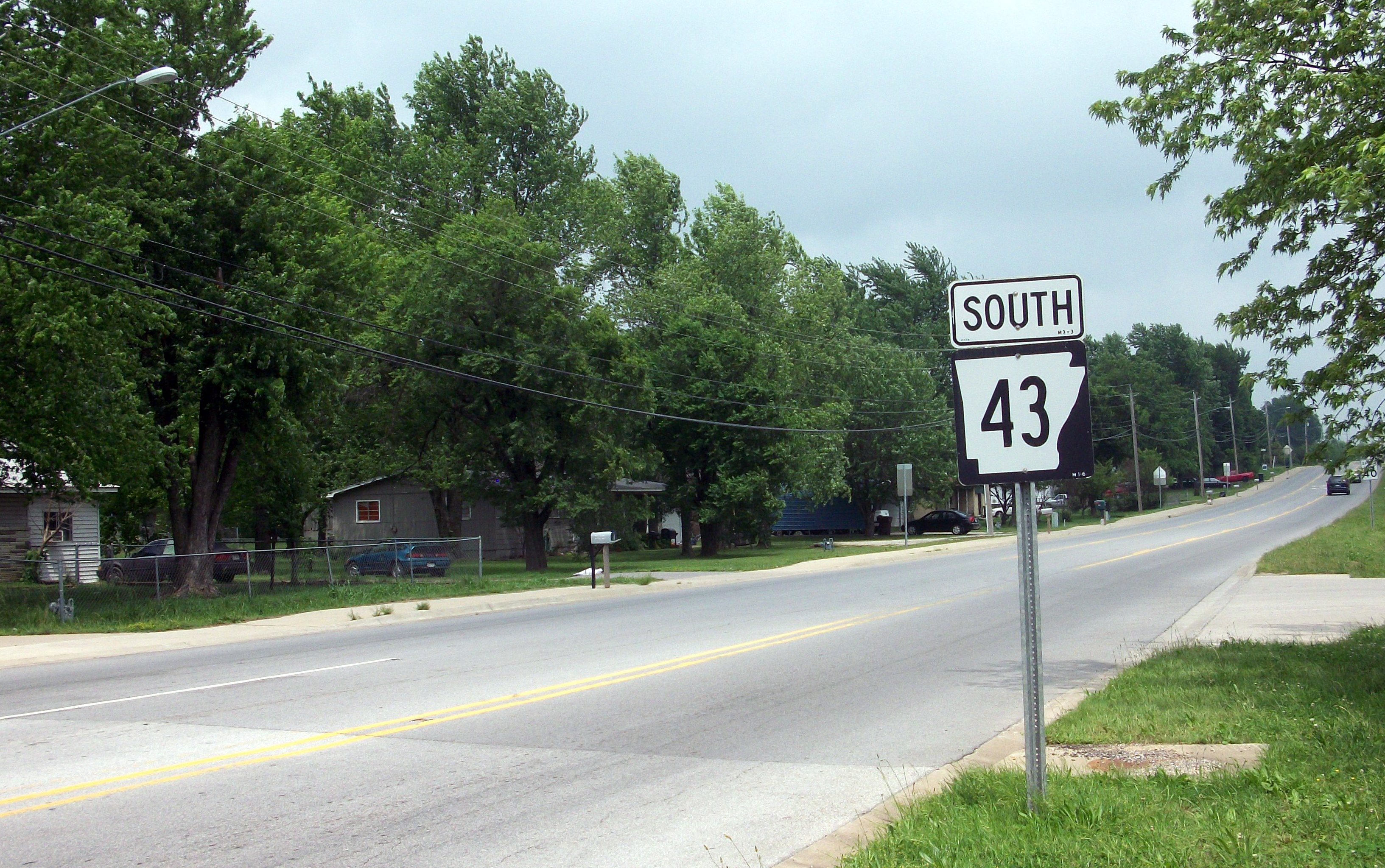 Arkansas Highway 43 (Cheri Whitlock Dr.) southbound in Siloam Springs.This segment is also former AR 204.